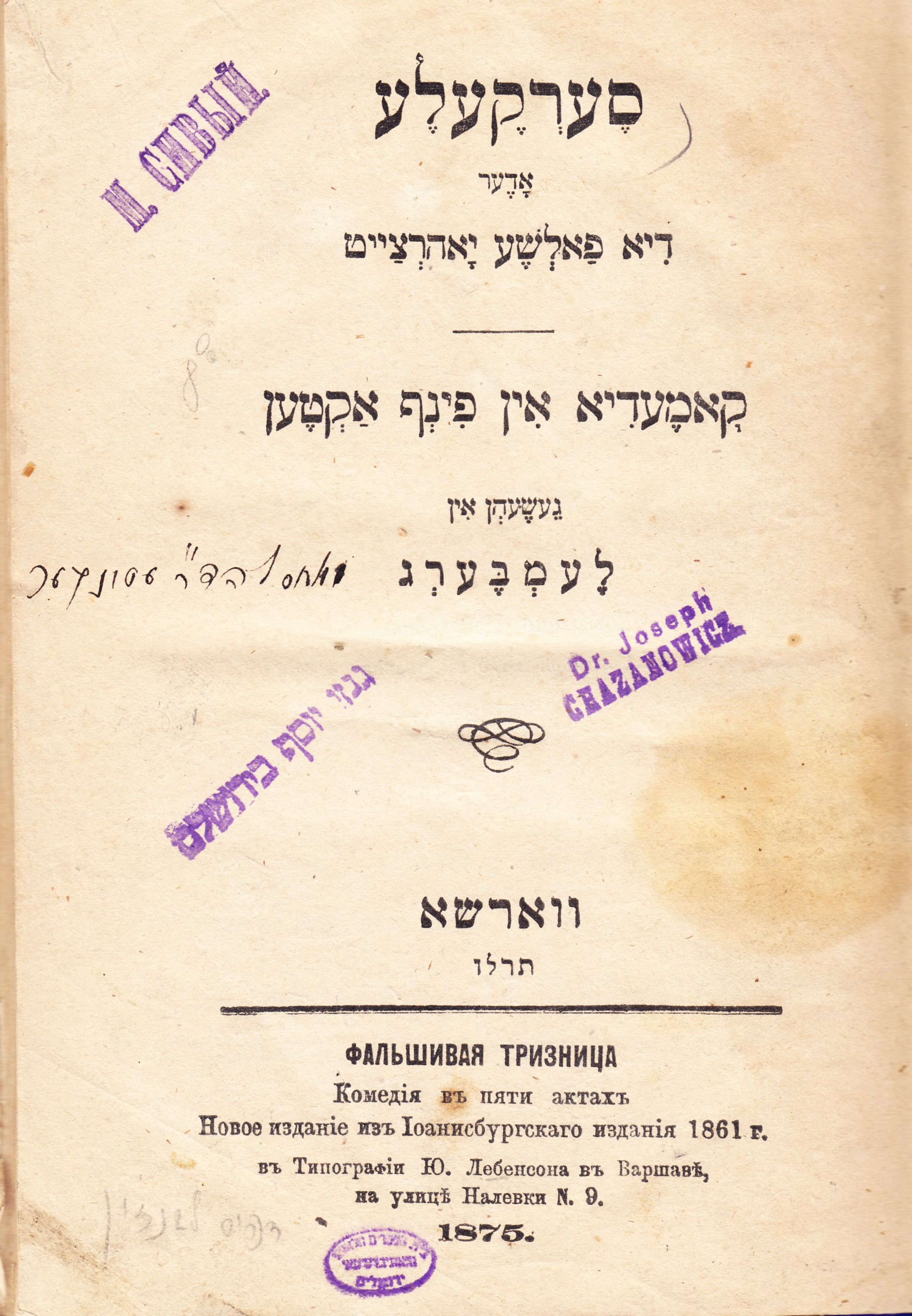 Title page of Serkele by Shlomo Ettinger